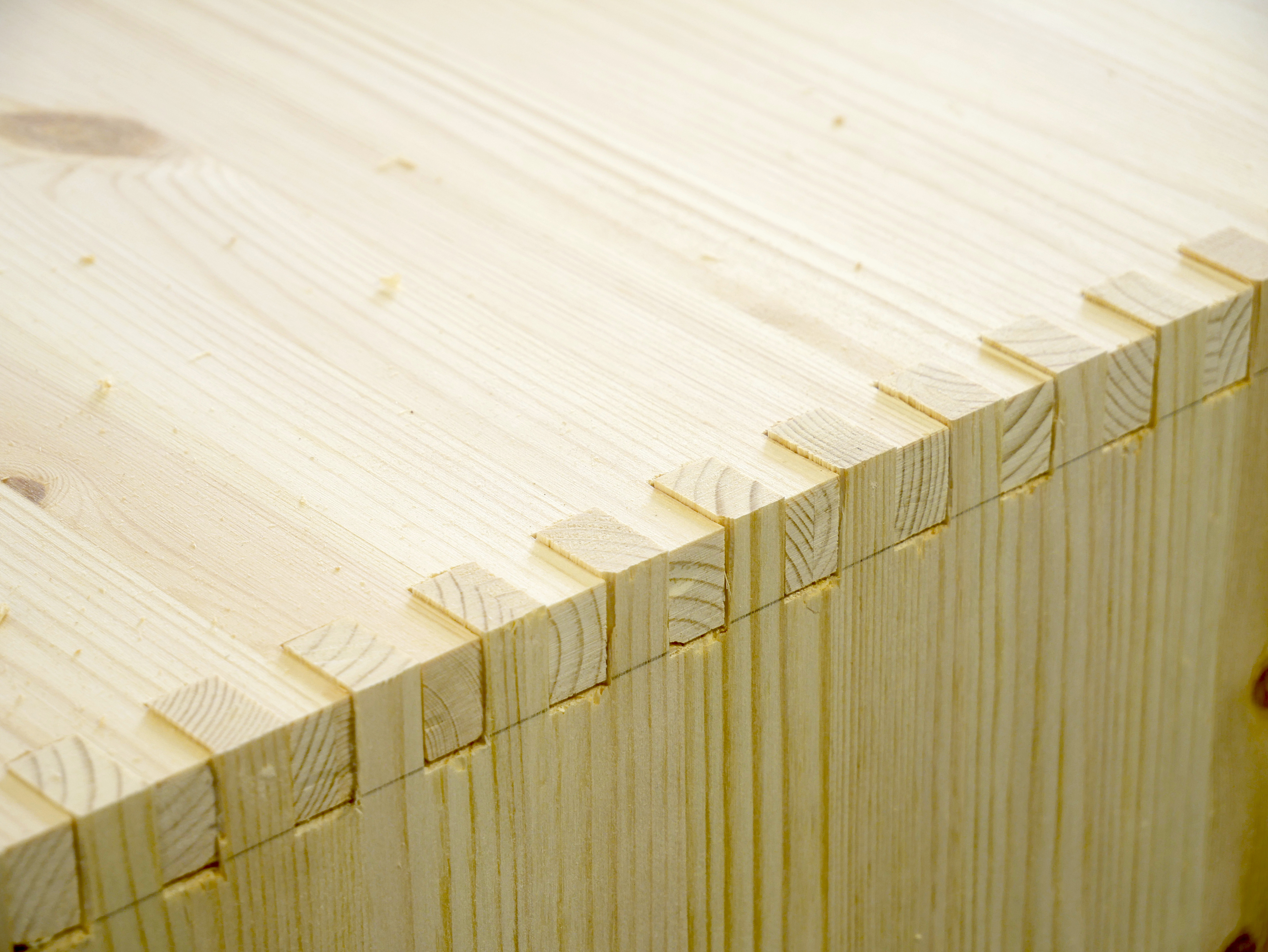 Finger joint.